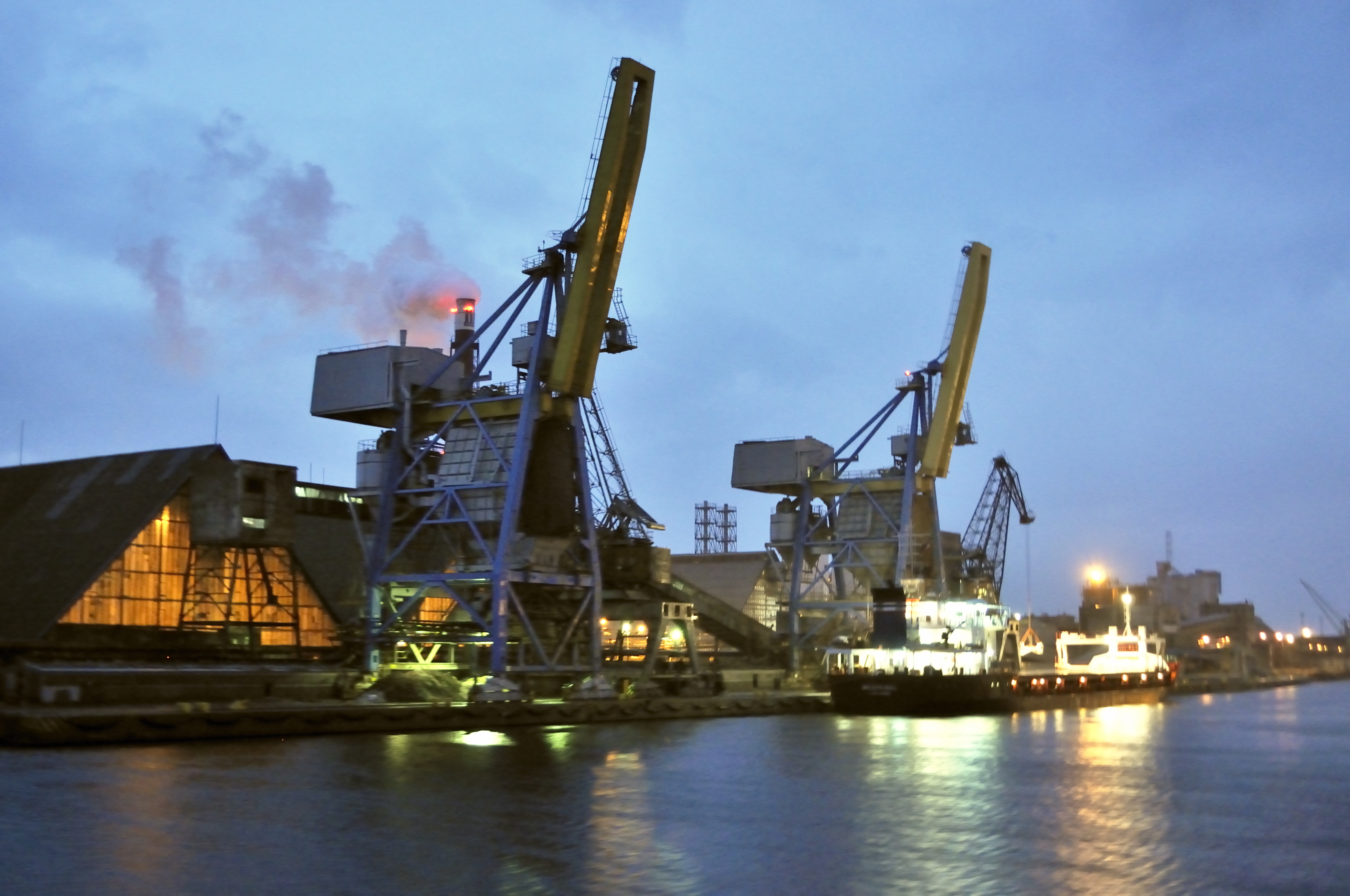 Picture taken in Gdańsk after Wikimania 2010 conference.